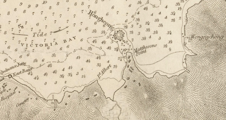 This map is the admiralty chart drawn by Captain Sir Edward Belcher. It shows the coastline of Causeway Bay and majority of Wan Chai, before any reclamation happened.